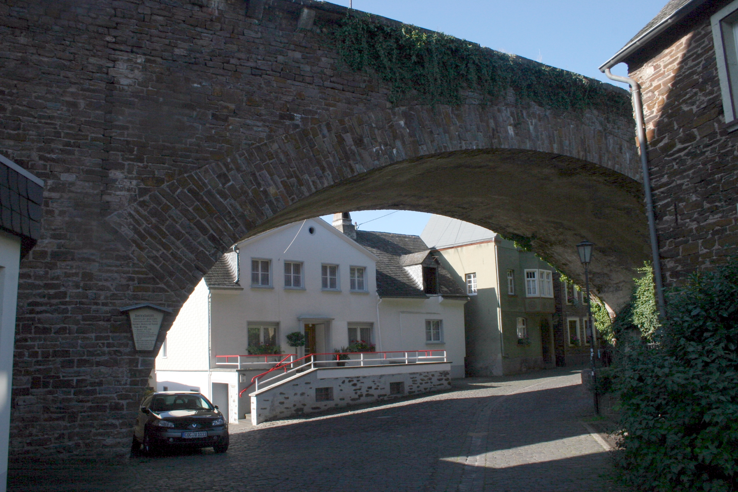 Large bridge thru railway dam in Bruttig on the Mosel river. Remnant of a planned and partially built, but never completed strategic railway.